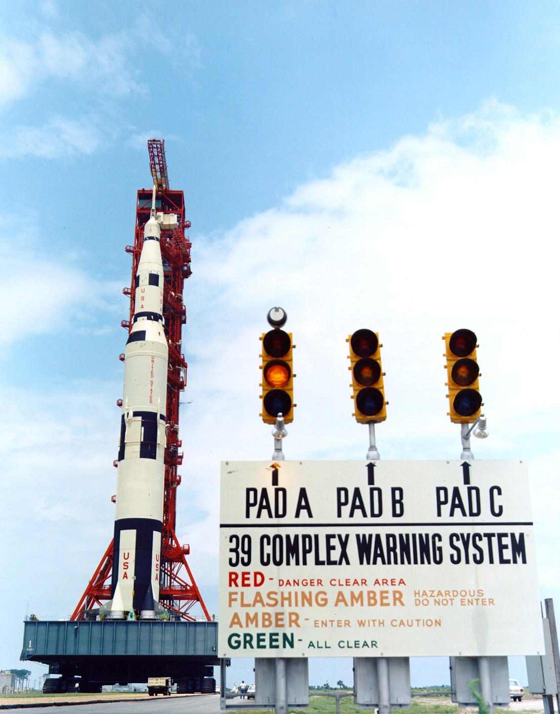 Launch Complex 39 (LC39) Warning System Lights showing unbuilt PAD C (LC39C).